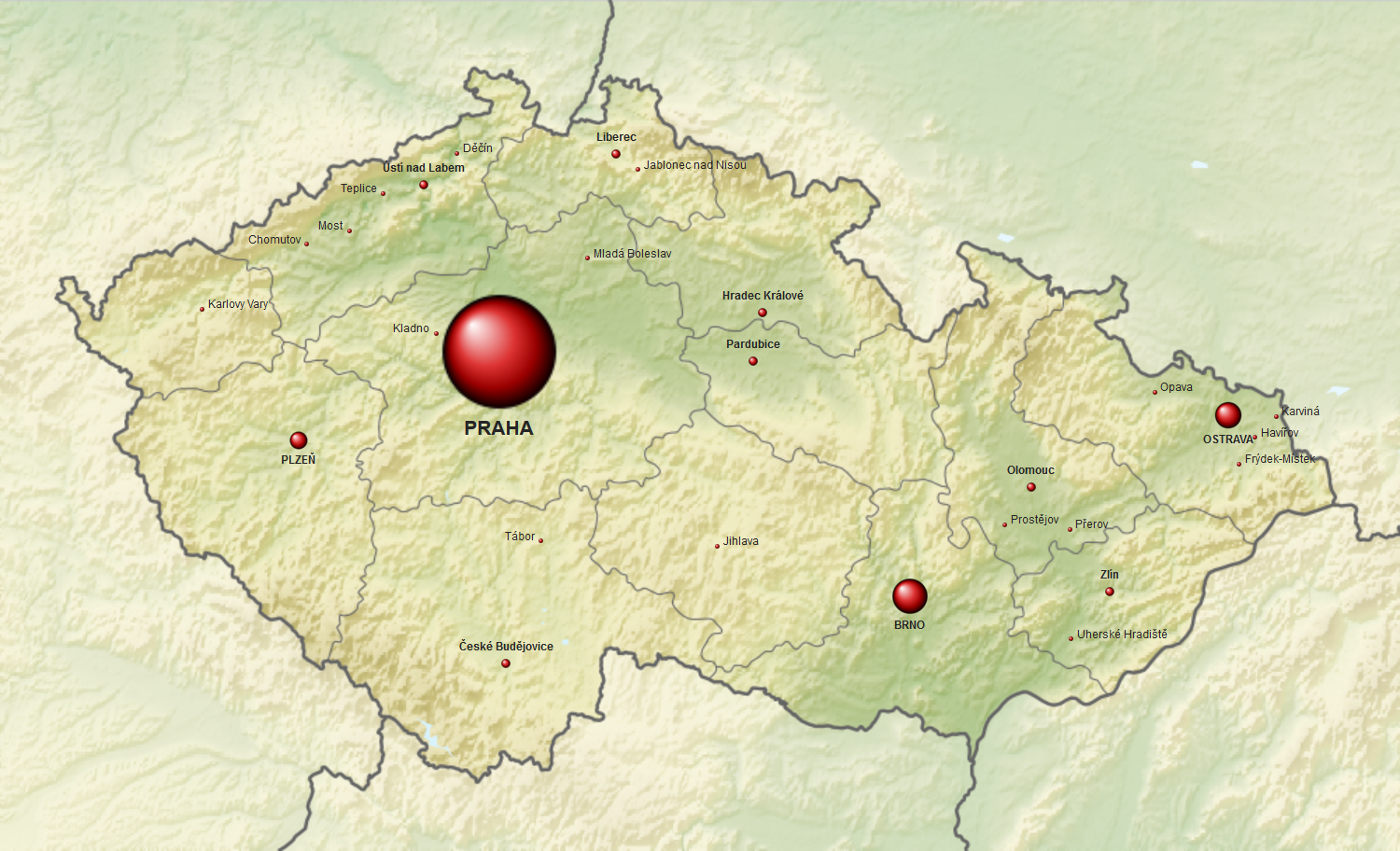 Czech Republic – map of cities by size